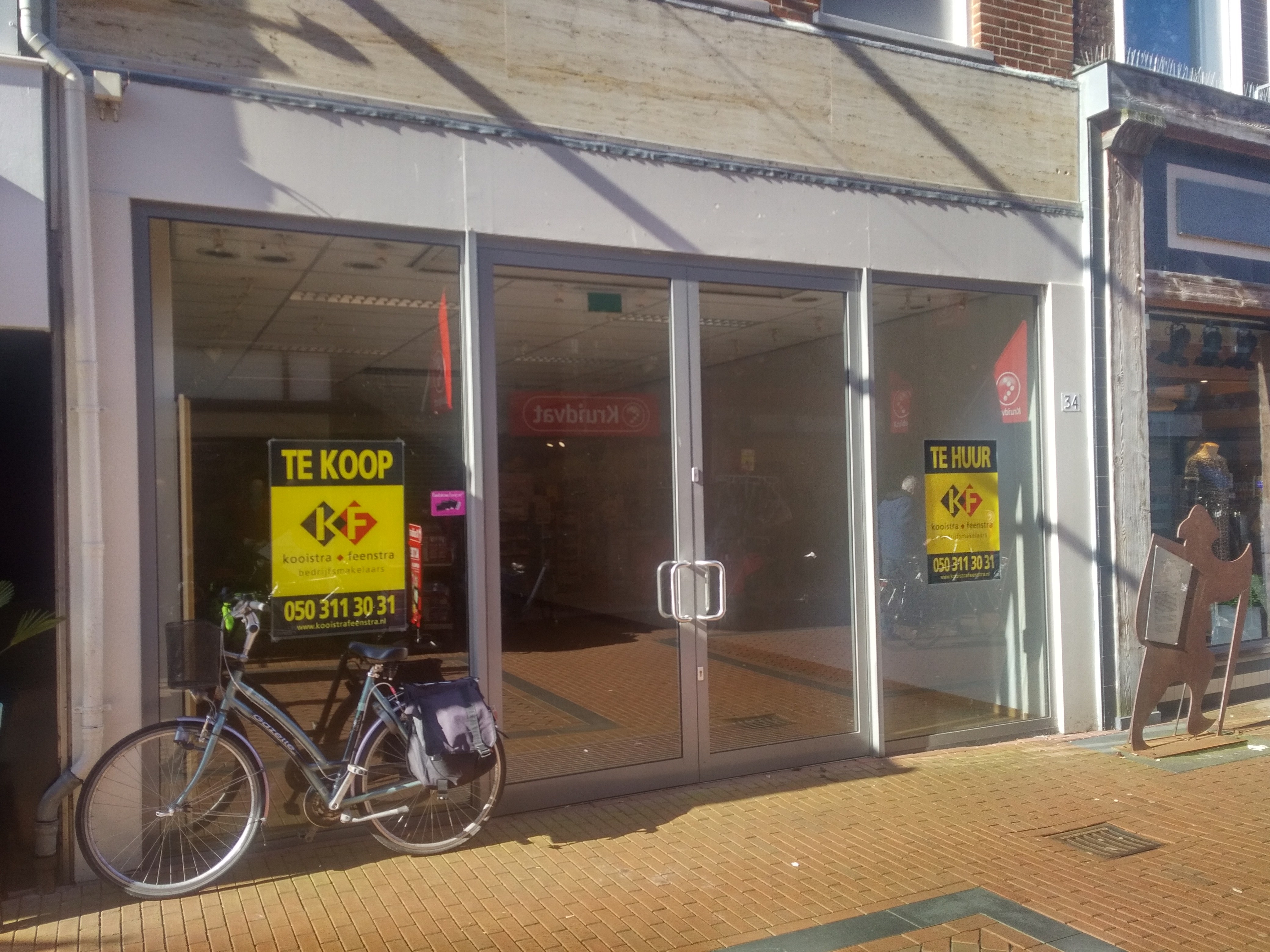 An empty store-front that is both for sale and for hire in the Langestraat ("the Longstreet") of the Groninger city of Winschoten, Oldambt.